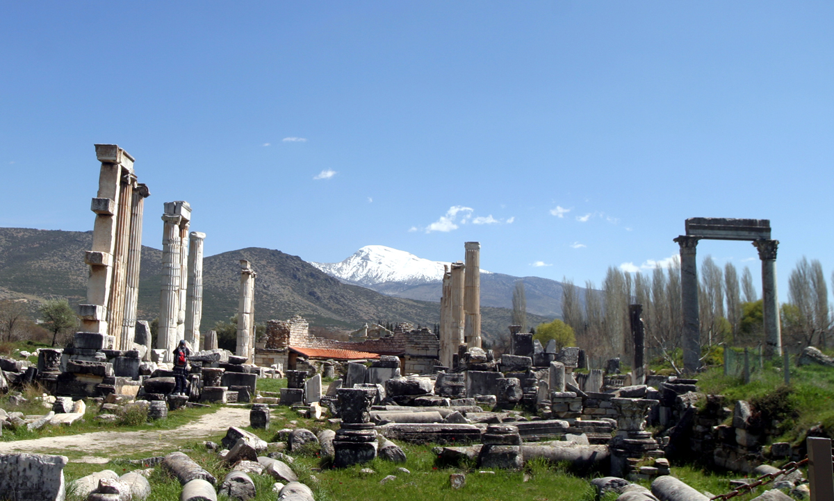 Aphrodisias, Caria, Turkey